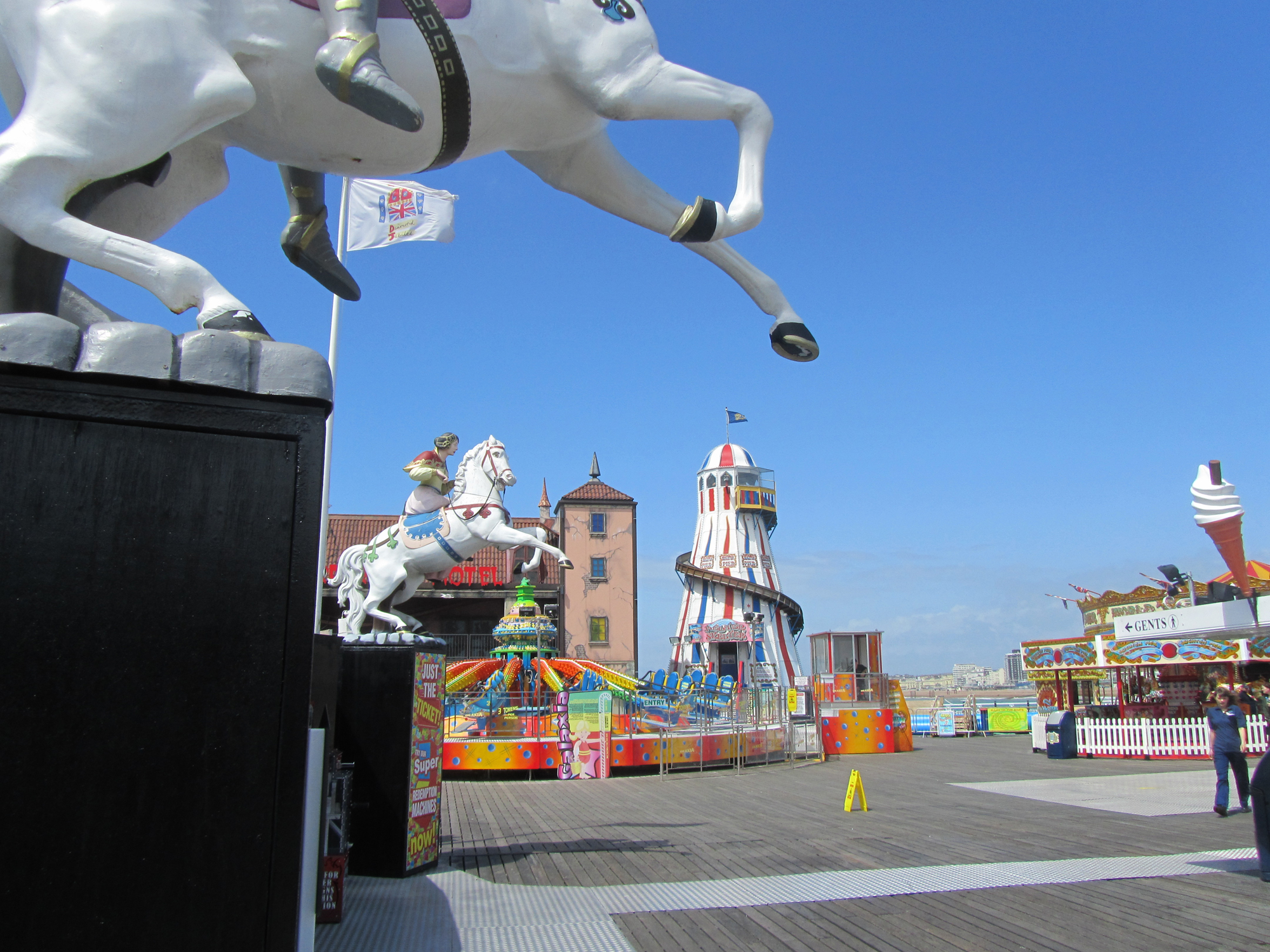 Brighton Pier in Brighton, England